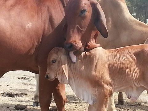 A Brahman cow and her calf (GTM Brahmans- Kyneton, VIC)